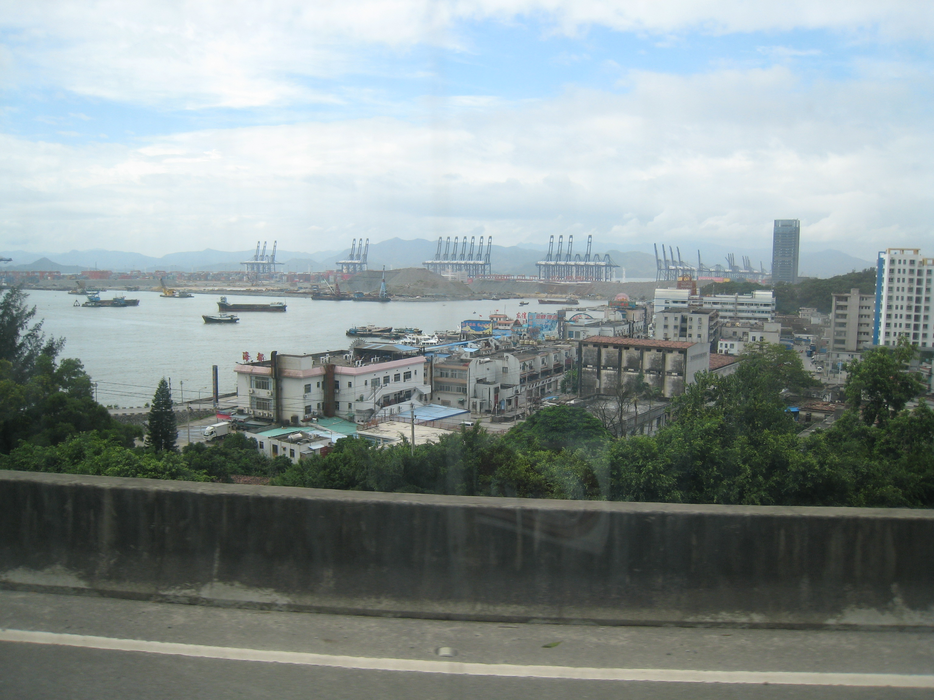 a view over Yantian from out the car.